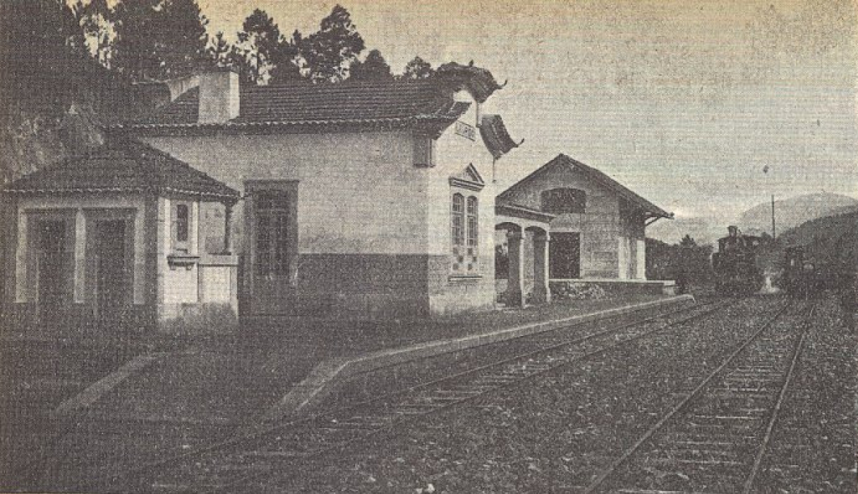 Lourido Railway Station, in the Tâmega Railway, in Portugal. This photograph was published on the Gazeta dos Caminhos de Ferro magazine No. 1104, of 16th December 1933, and scanned by the Hemeroteca Municipal de Lisboa.